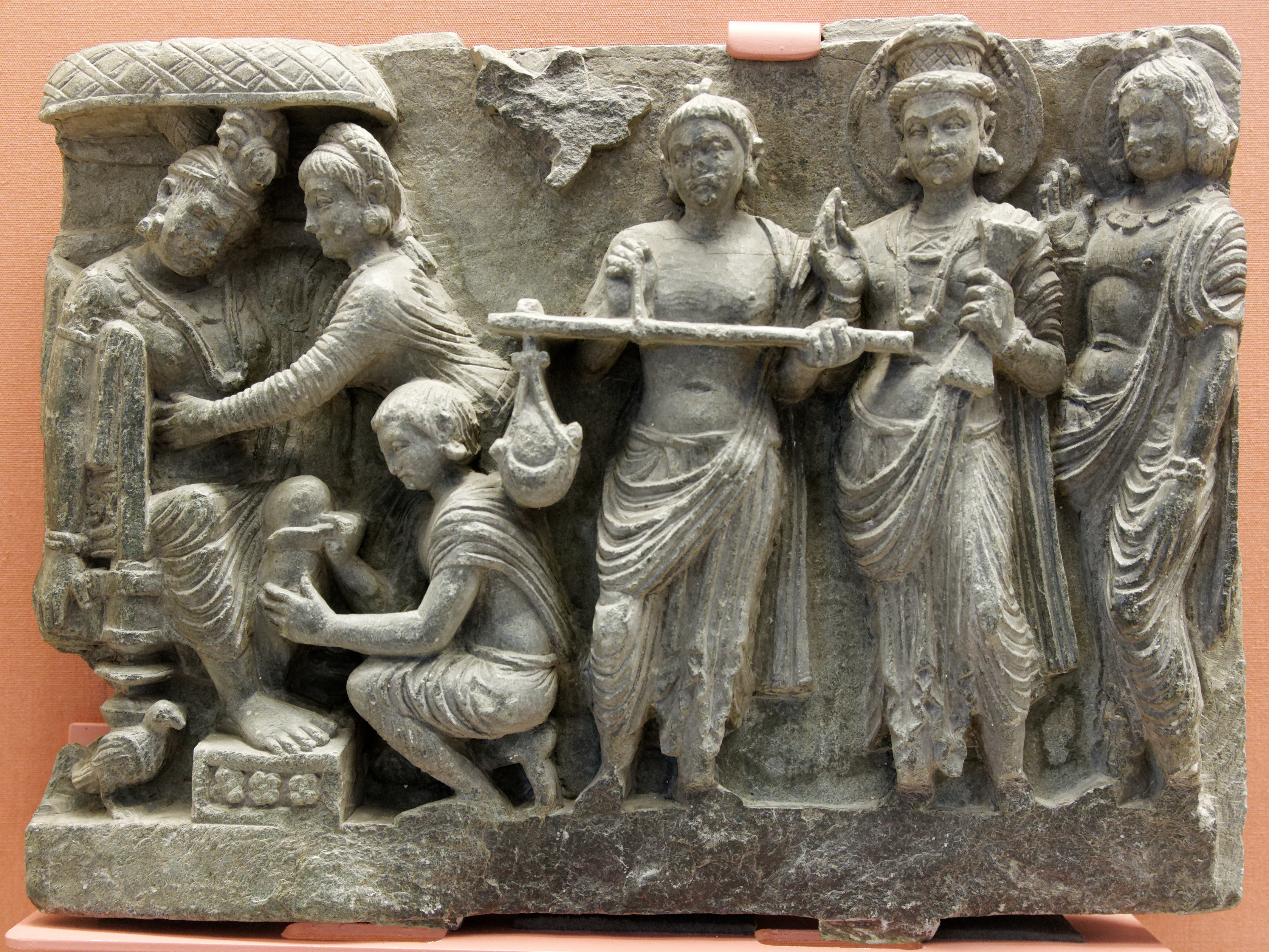 Sibi Jataka: during one of his previous lives, the Buddha offers his own flesh to a hawk to ransom the life of a pigeon.